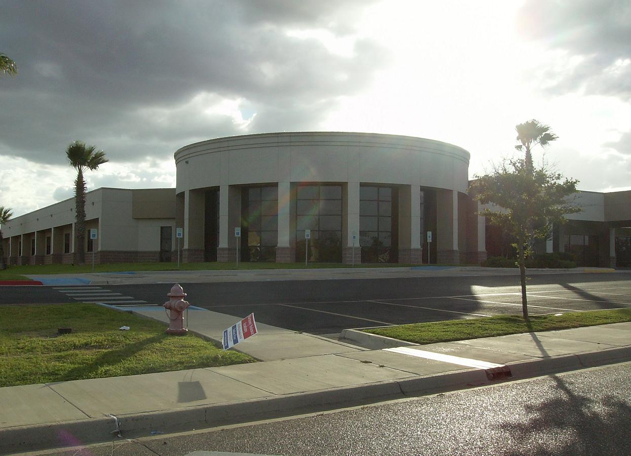 Providence Surgical & Medical Center in Laredo, Texas